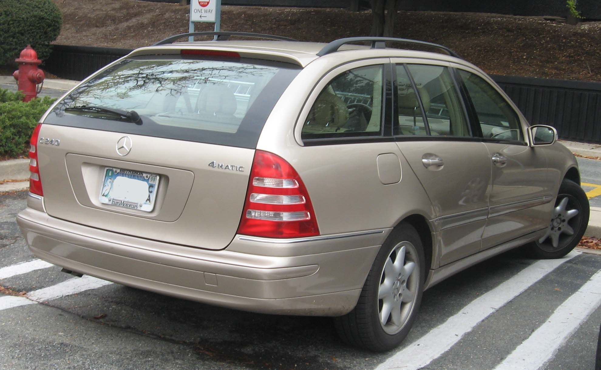 2002-2004 Mercedes-Benz C240 photographed in Rockville, Maryland, USA.